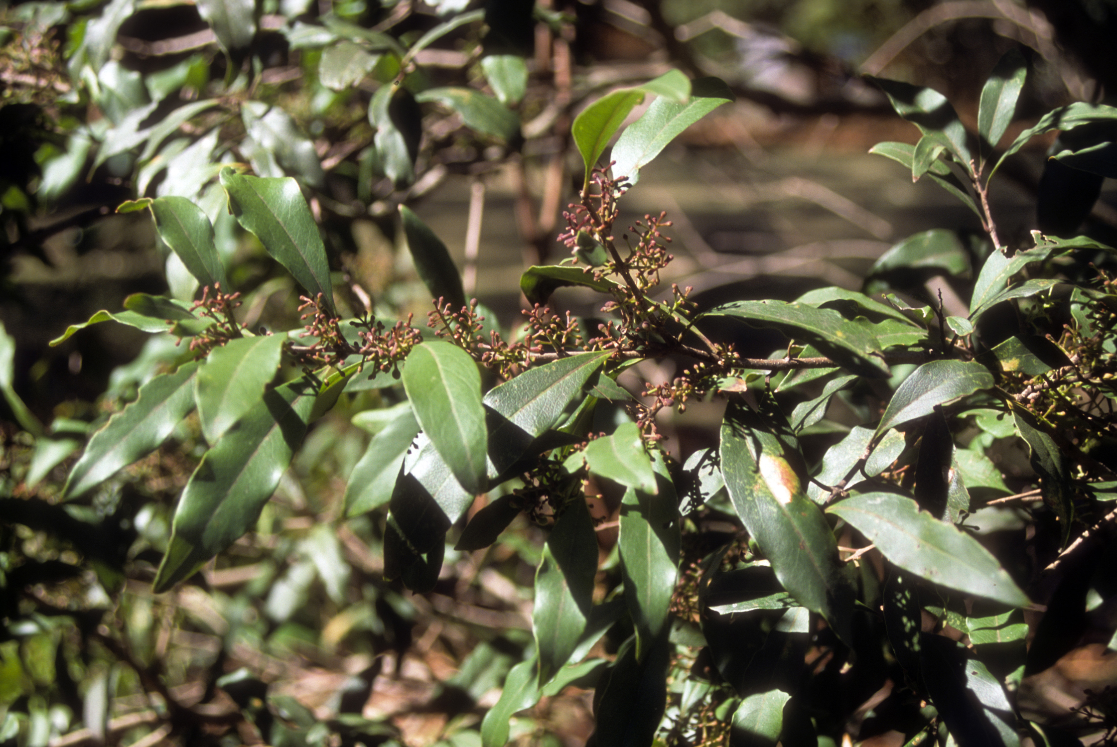 Notelaea longifolia. Royal Botanic Garden, Sydney, Australia. Sep 2001.